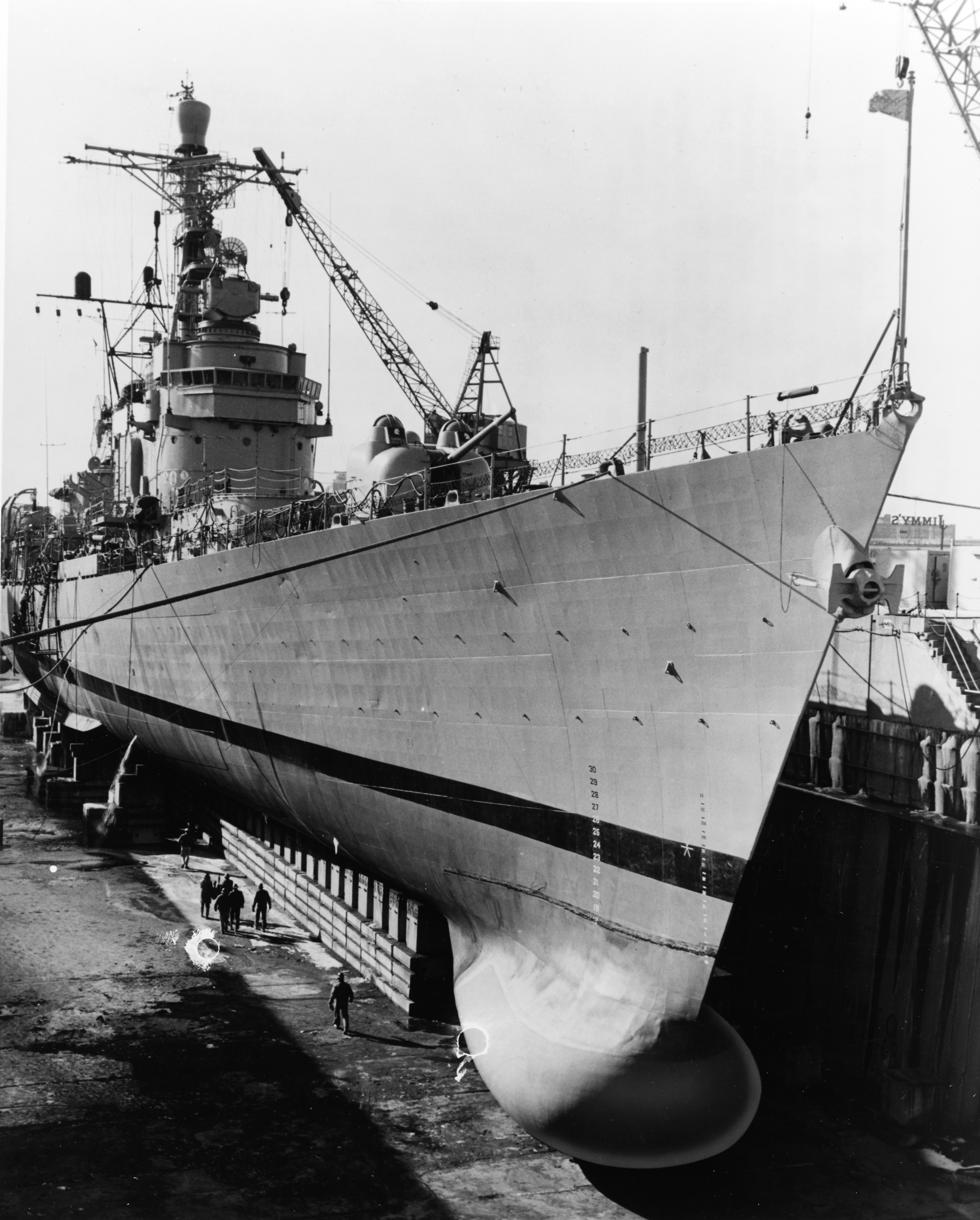 The U.S. Navy destroyer leader USS Willis A. Lee (DL-4) in drydock at the Boston Naval Shipyard, Massachusetts (USA), after installation of a rubber dome for her prototype SQS-26 sonar, 1966.